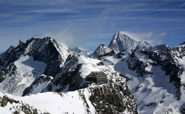 Cabane des Vignettes, above Arolla. F.l.t.r: Dent de Perroc (3676 m), Aiguille de la Tsa (3668 m), Dent Blanche (4357 m)